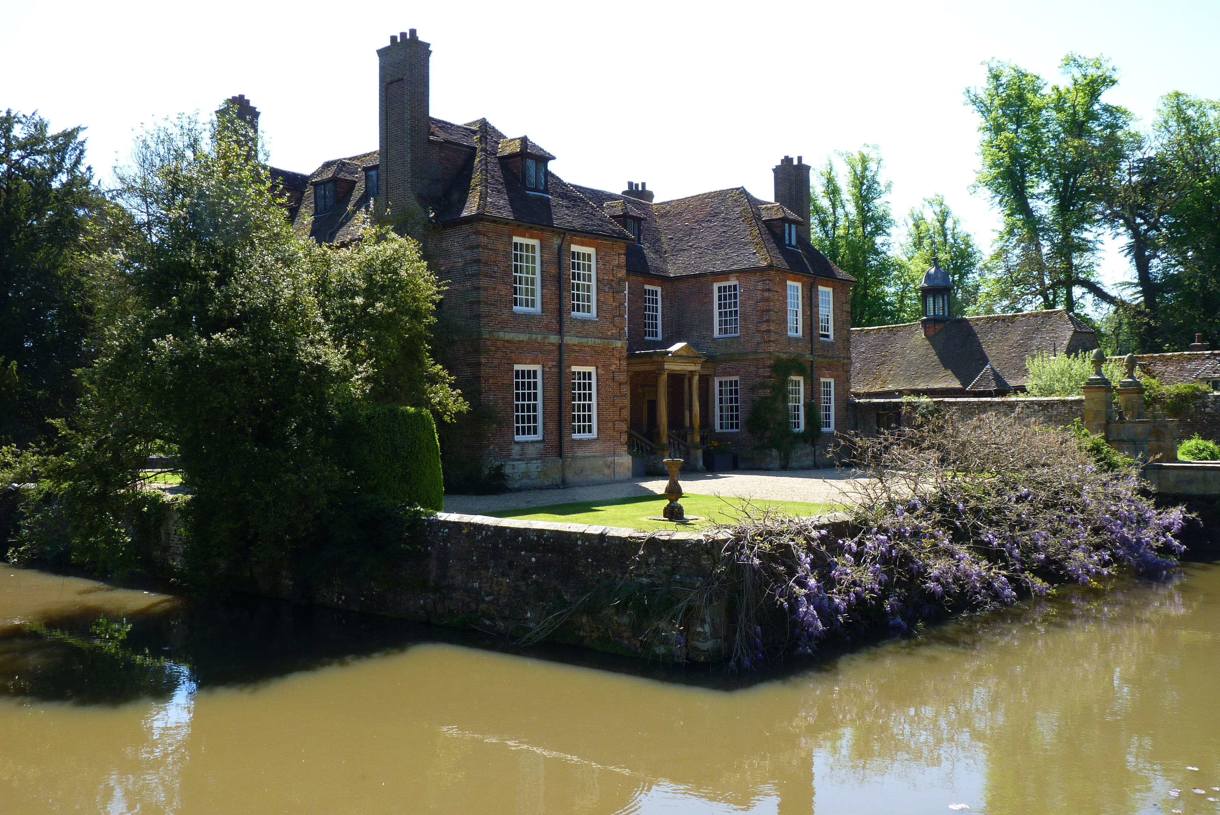 Groombridge Place, a historic house in Kent